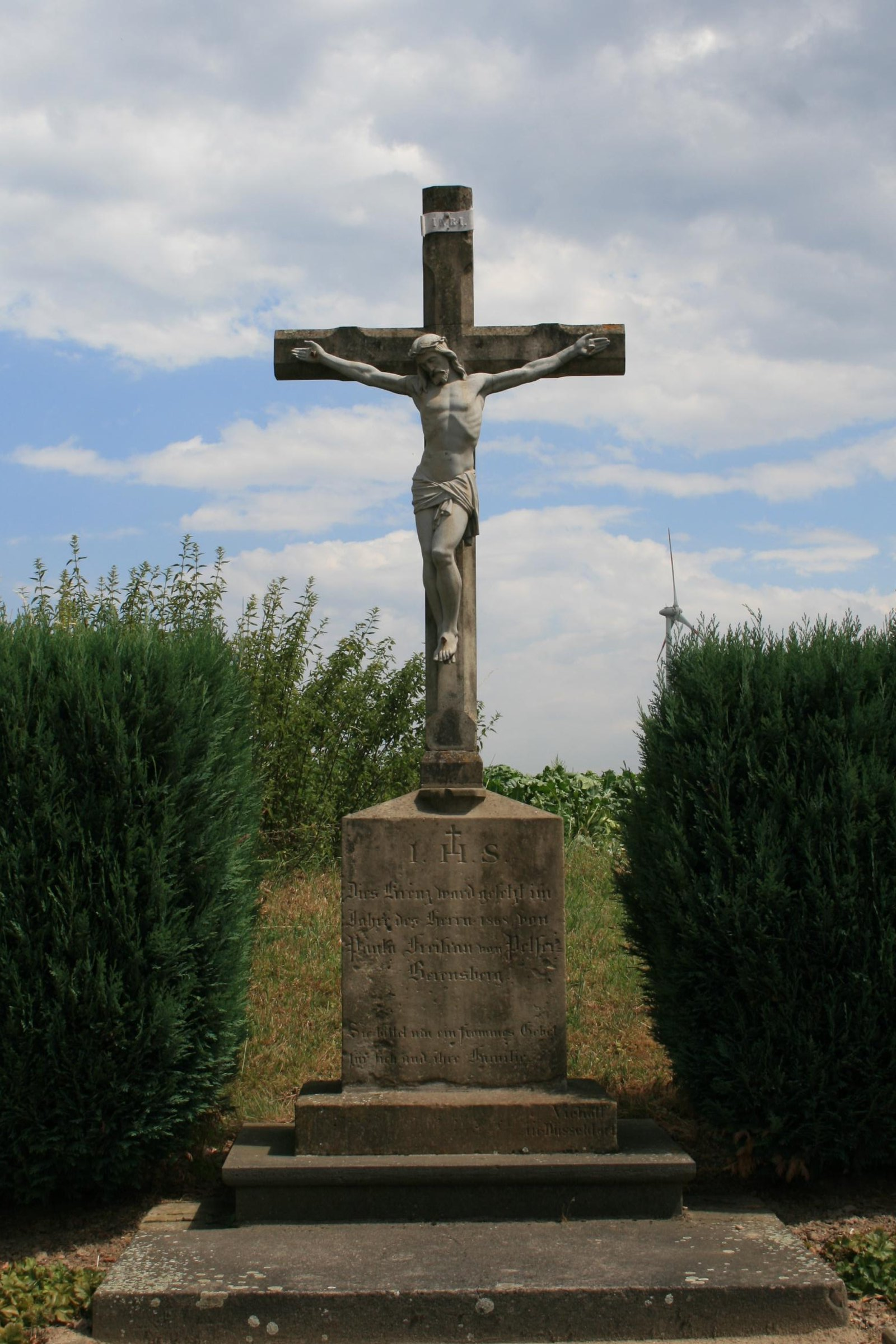 Cultural heritage monument No. St 029 in Mönchengladbach